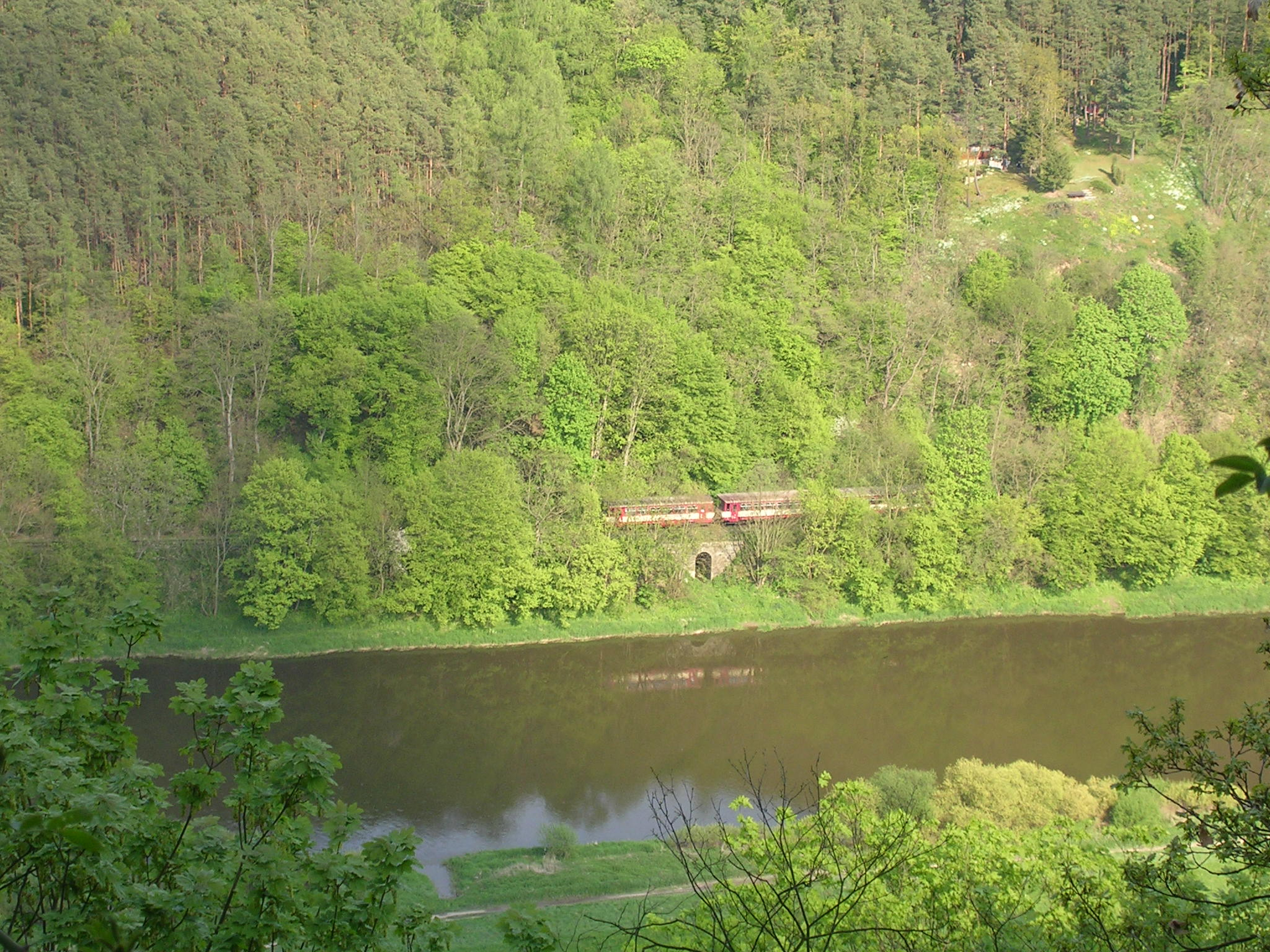 Újezd nad Zbečnem, the Czech Republic.